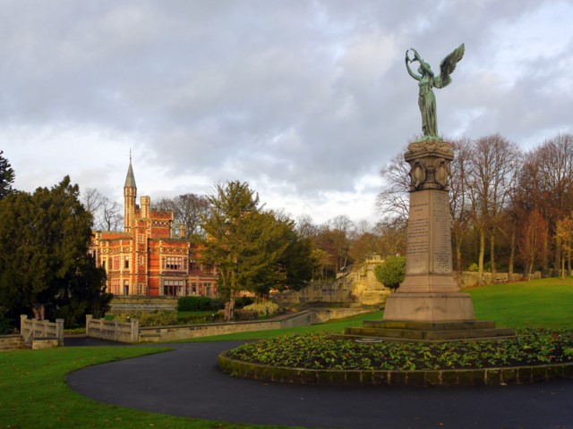 Boer War Memorial, Saltwell Park. The South African or Boer War was 1899-1902. The inscription reads: "In Grateful Remembrance of the Gateshead Men who lost their lives in their Country's Service. This Memorial was erected by their fellow Townsmen, October 1905" The roll of honour, as inscribed on the sides of the monument, is listed here Saltwell Towers 1581133 can be seen to the left beyond the Primosole Bridge 1597593